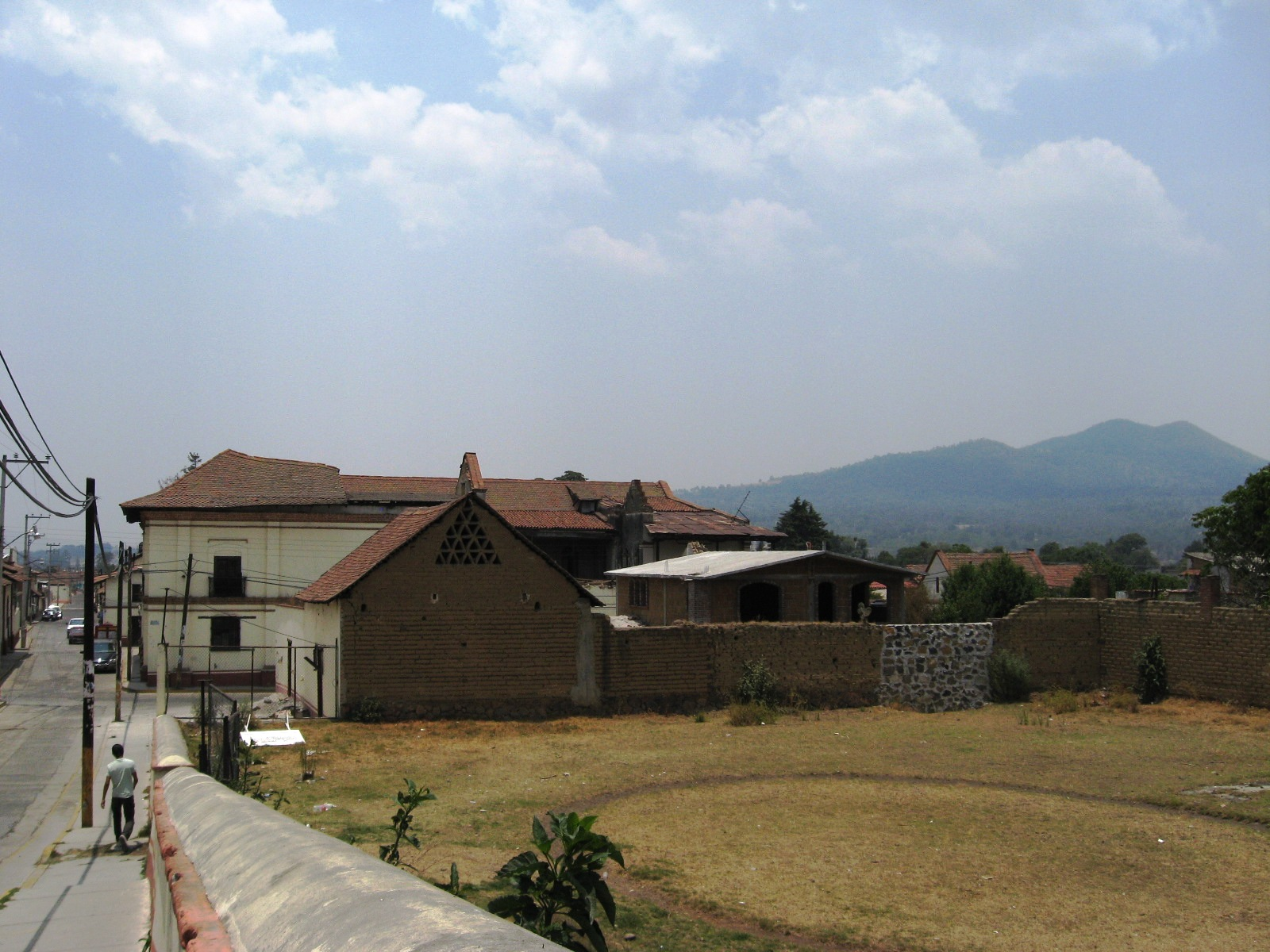 View of Ayapango, Mexico State, Mexico from the town plaza overlooking the "Casa Grande" (Big House)